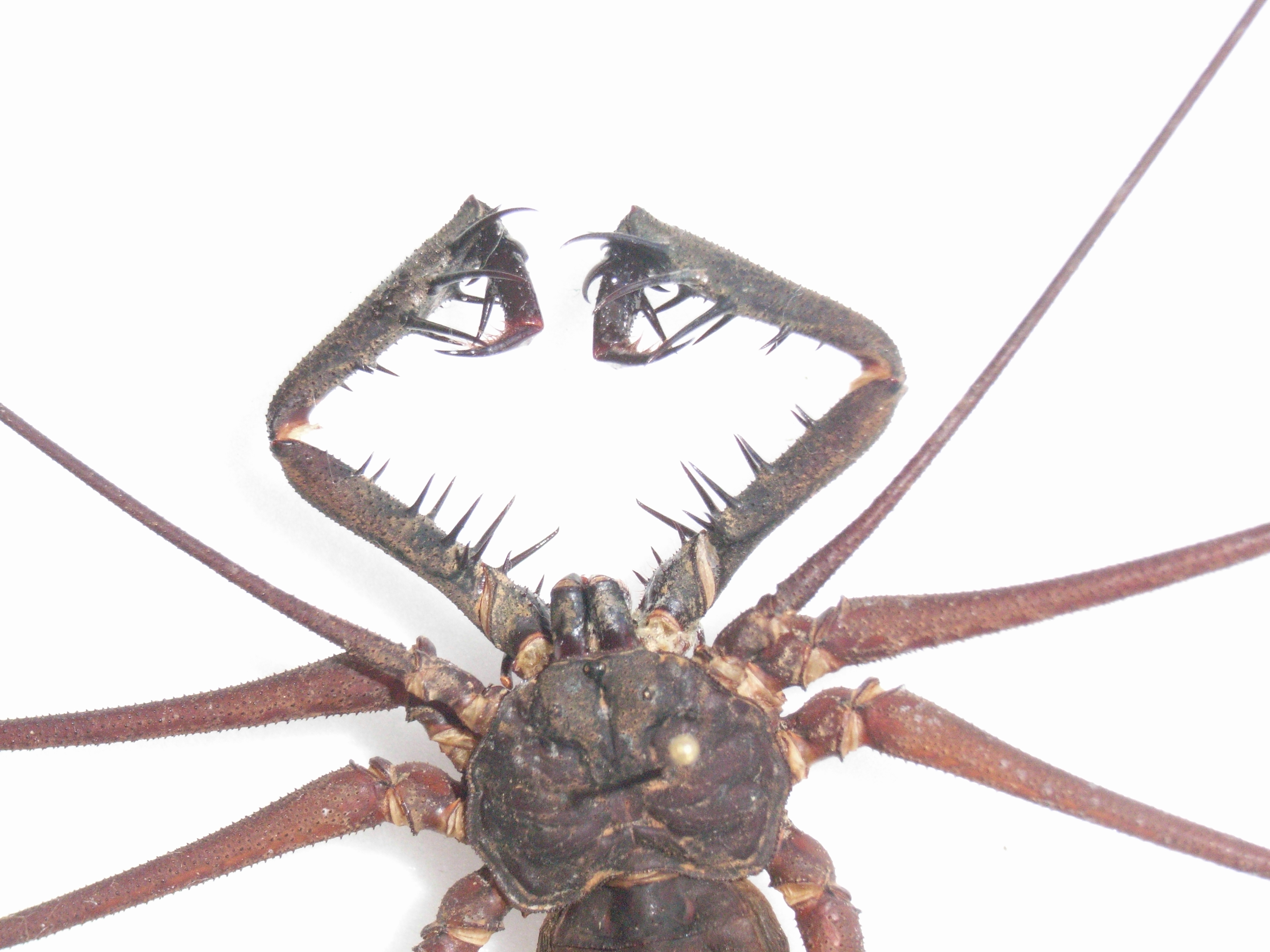 Amblypyge sp Togo Ex coll. Felix Stumpe